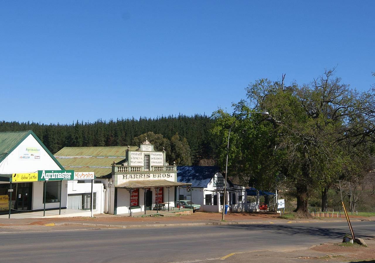 Took this while filling up with petrol... only just made it - we put in 16.2L ina 17L tank! This media shows a South African Protected Site with SAHRA file reference 9/2/015/0054.